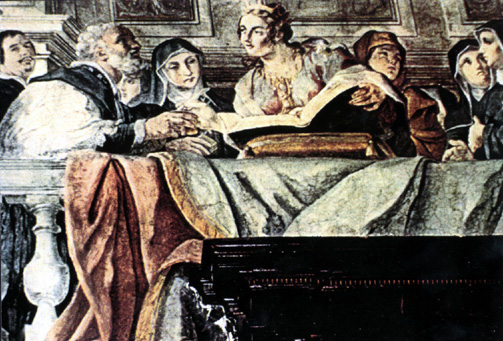 Painting of Charlotte I of Cyprus